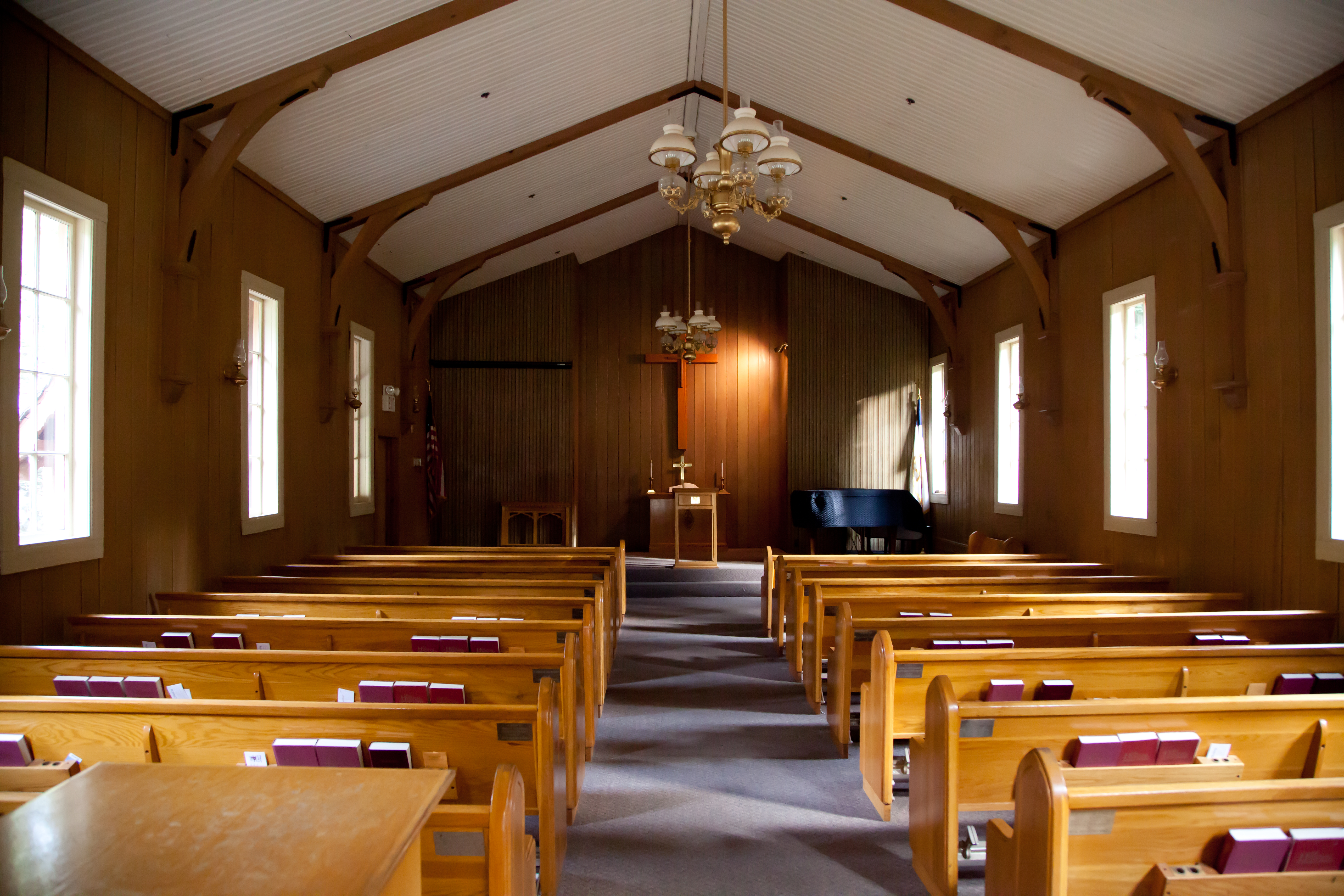 Interior of the Yosemite Valley Chapel in Yosemite Valley, California.